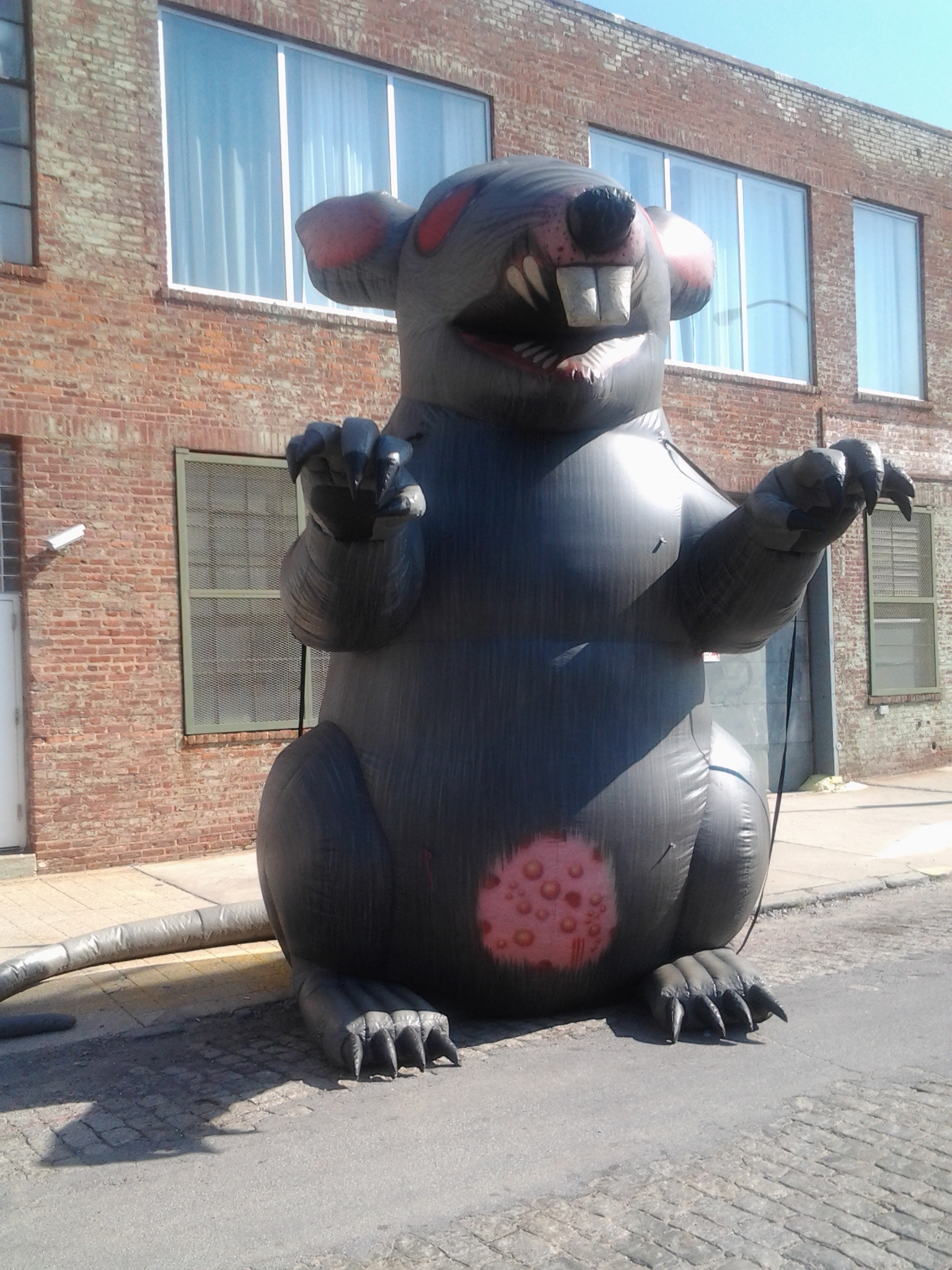 Large inflatable rat, used for labor union demonstrations. This example was photographed on 46th Road, between 5th Street and Vernon Blvd, in Long Island City, Queens, NY.